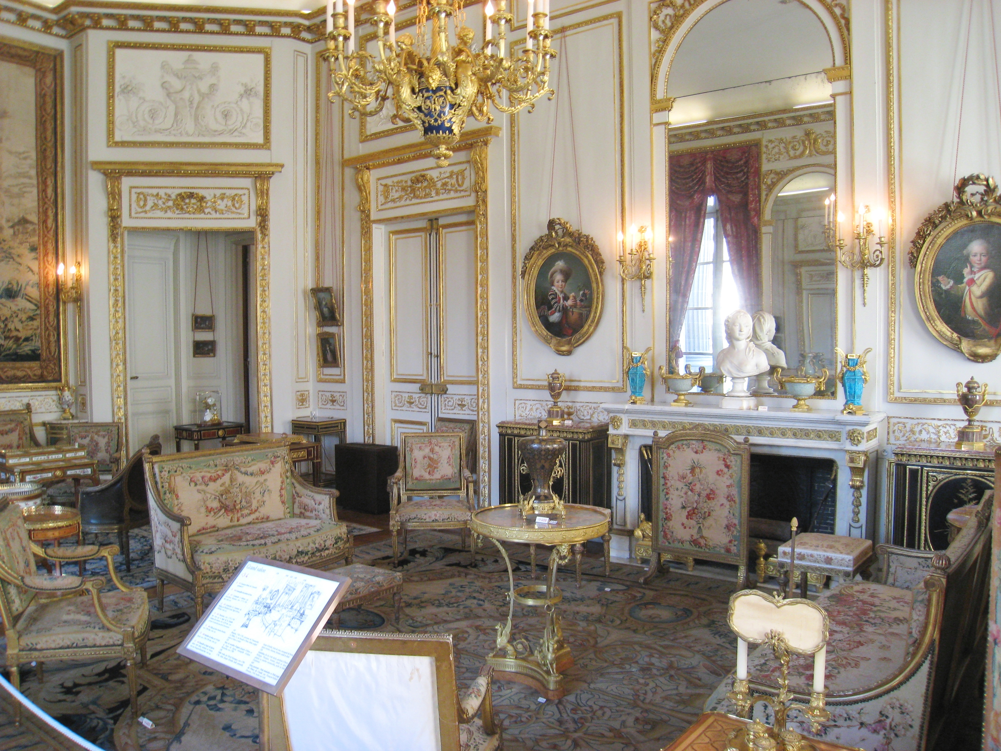 Musée Nissim de Camondo, Paris, France - Grand Salon.